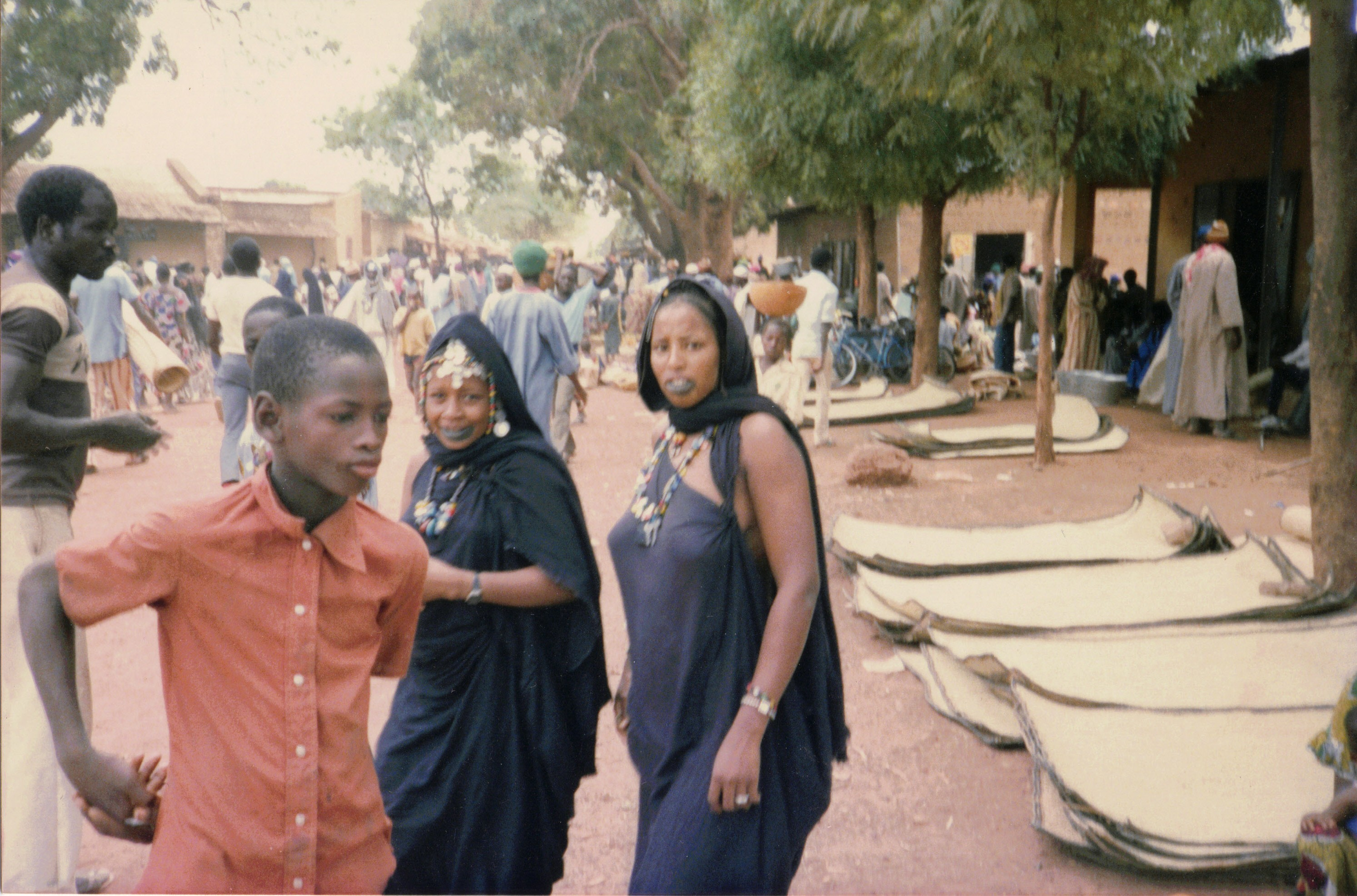 Market day at Banamba in the Republic of Mali